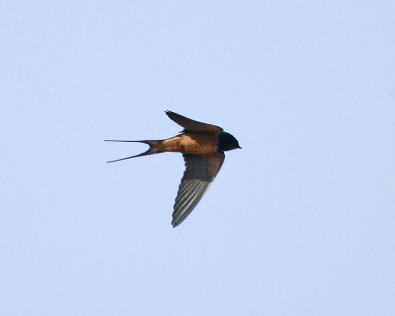 Egyptian Barn Swallow Hirundo rustica Hirundo rustica savignii River Nile, near Luxor, Egypt 5th. January 2008 _Q0S4717